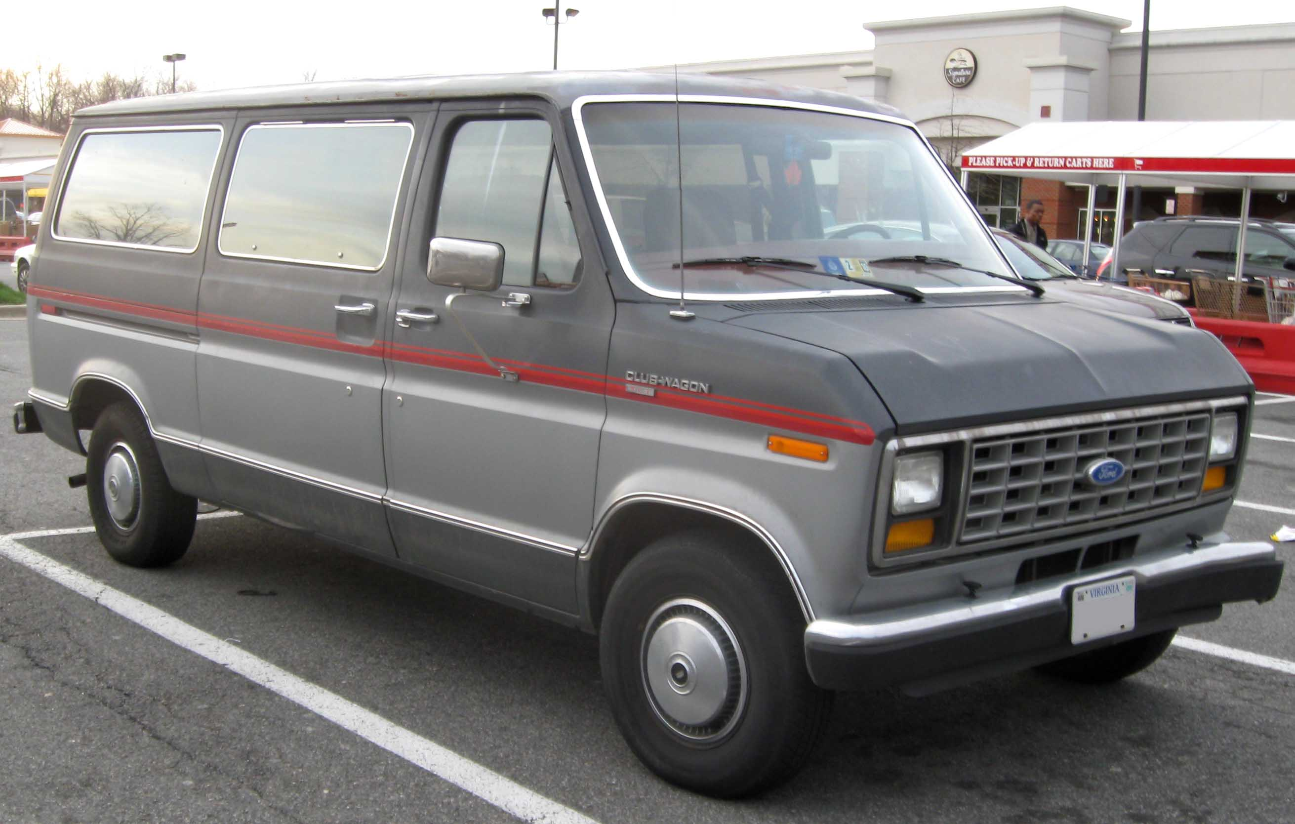 1983-1991 Ford Club Wagon photographed in Fort Washington, Maryland, USA.